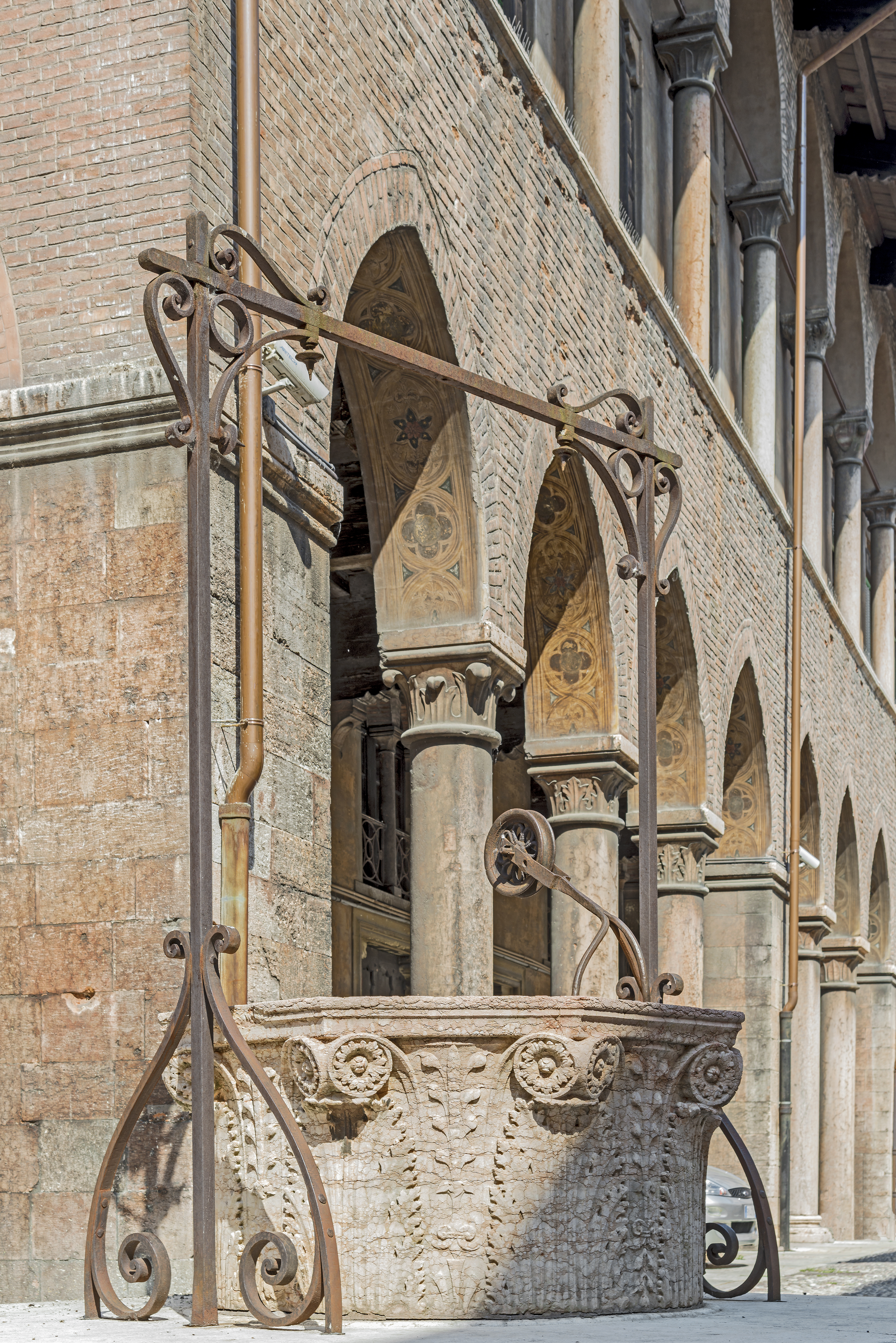 The well in the courtyard of 'Palazzo del Podesta' 'in Verona.